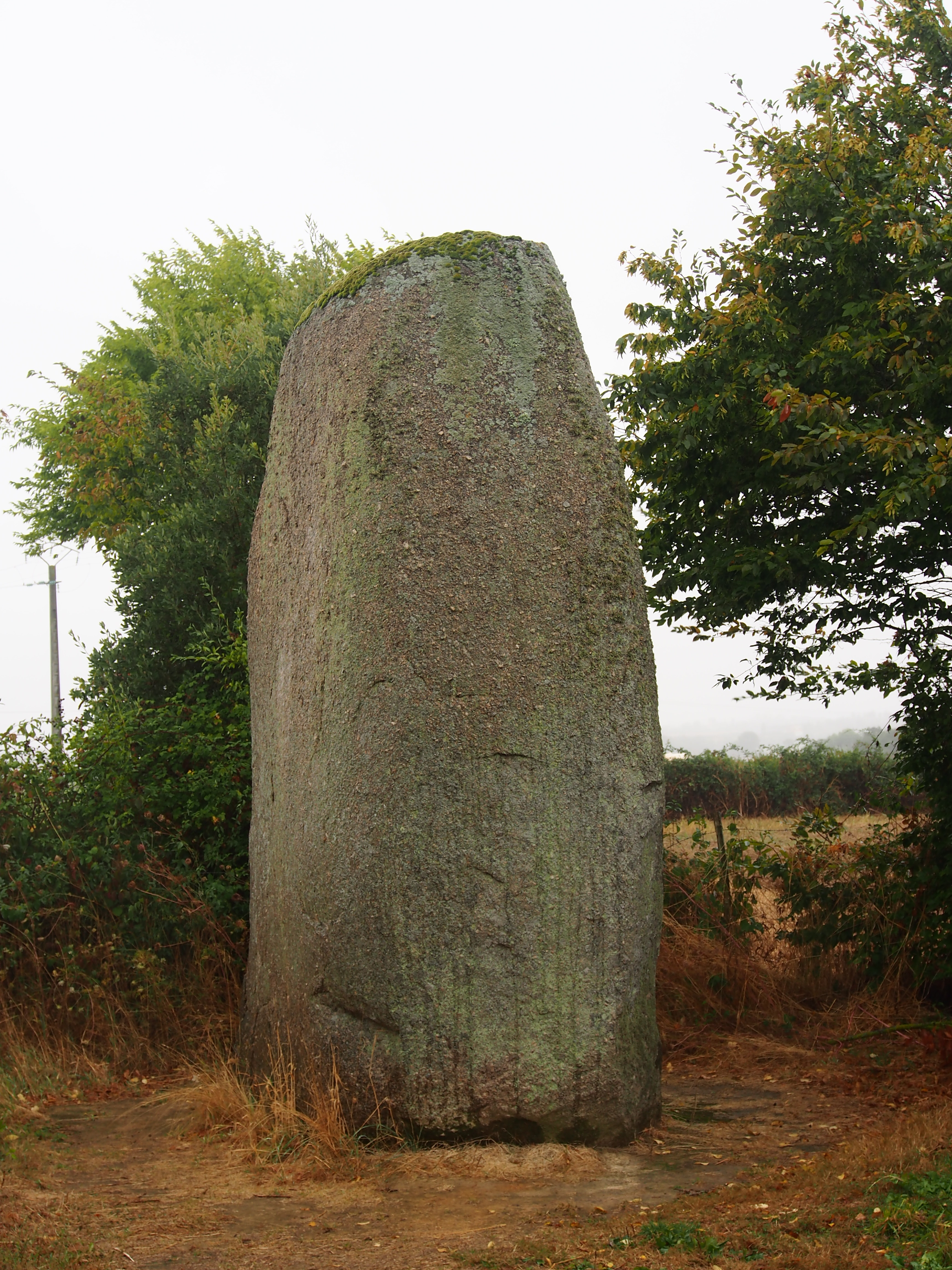 Photographed in France.